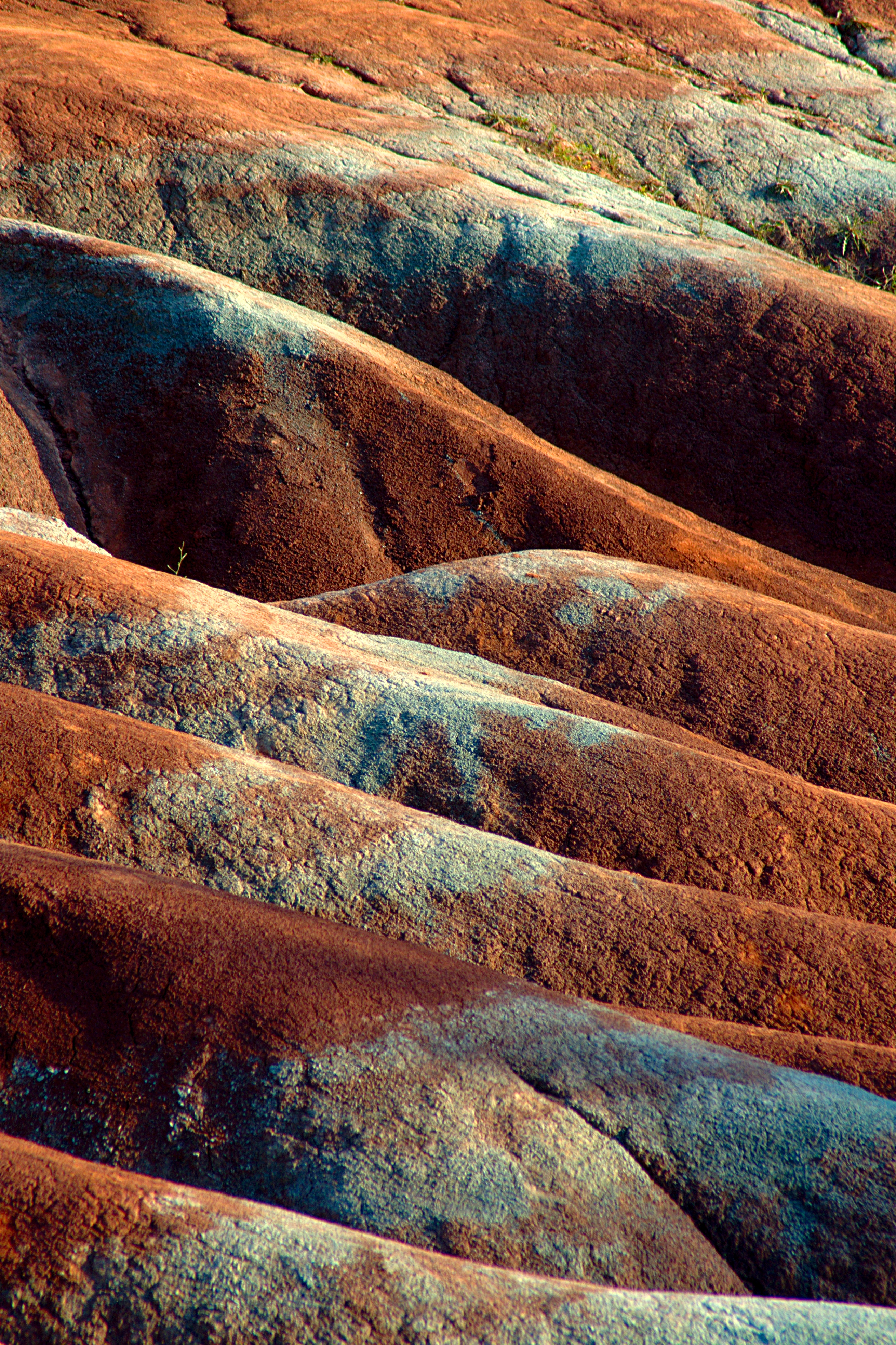 Closeup of the Cheltenham Badlands.